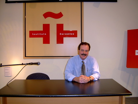 Picture of Leonardo Garet at the Cervantes Institute in Tel Aviv